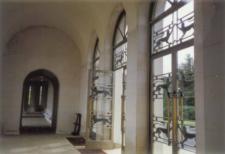 Air Forces Memorial, Runnymede, UK